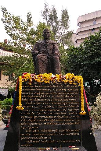 Monument of Pridi Phanomyong at Thammasat University, Bangkok, Thailand